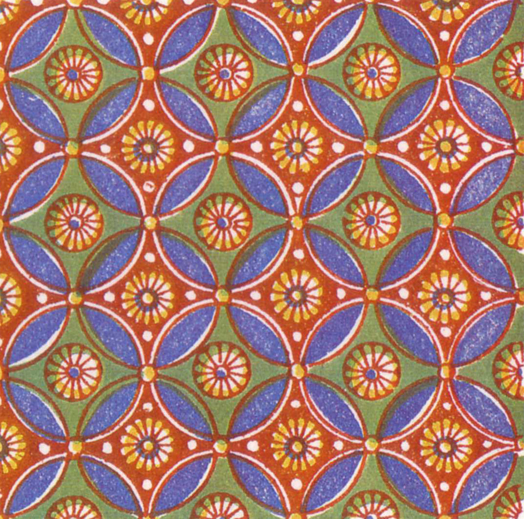 Example of wallpaper group type p4m.